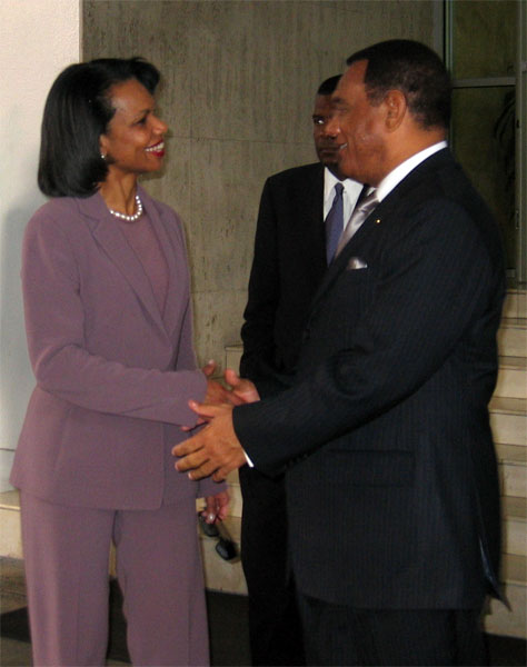 Secretary Rice meets with Bahamian Prime Minister Perry Christie in Nassau, Bahamas March 21, 2006. The Secretary is visiting Nassau for the CARICOM Ministerial Meeting on March 22, 2006.